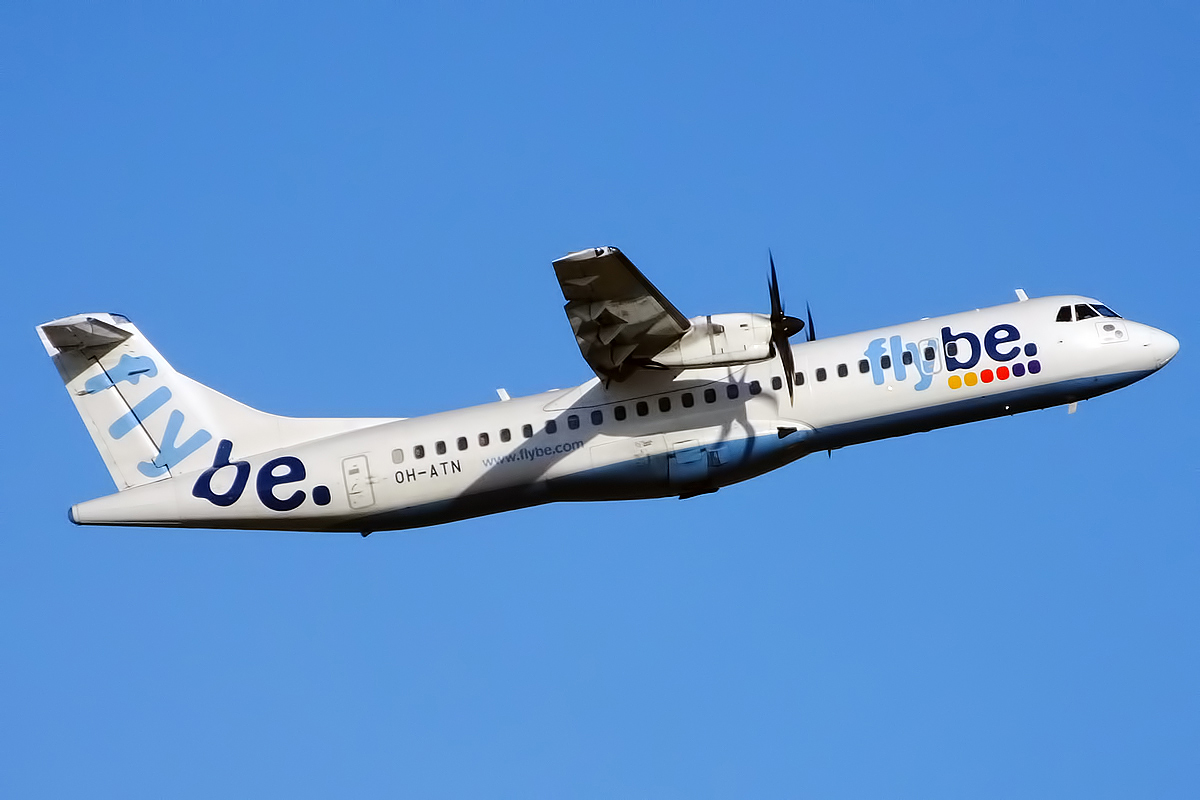 Flybe Nordic ATR 72-500 at Pulkovo Airport